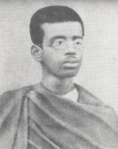 Kanailal Dutta, Indian revolutionary who was executed on 10 November 1908.